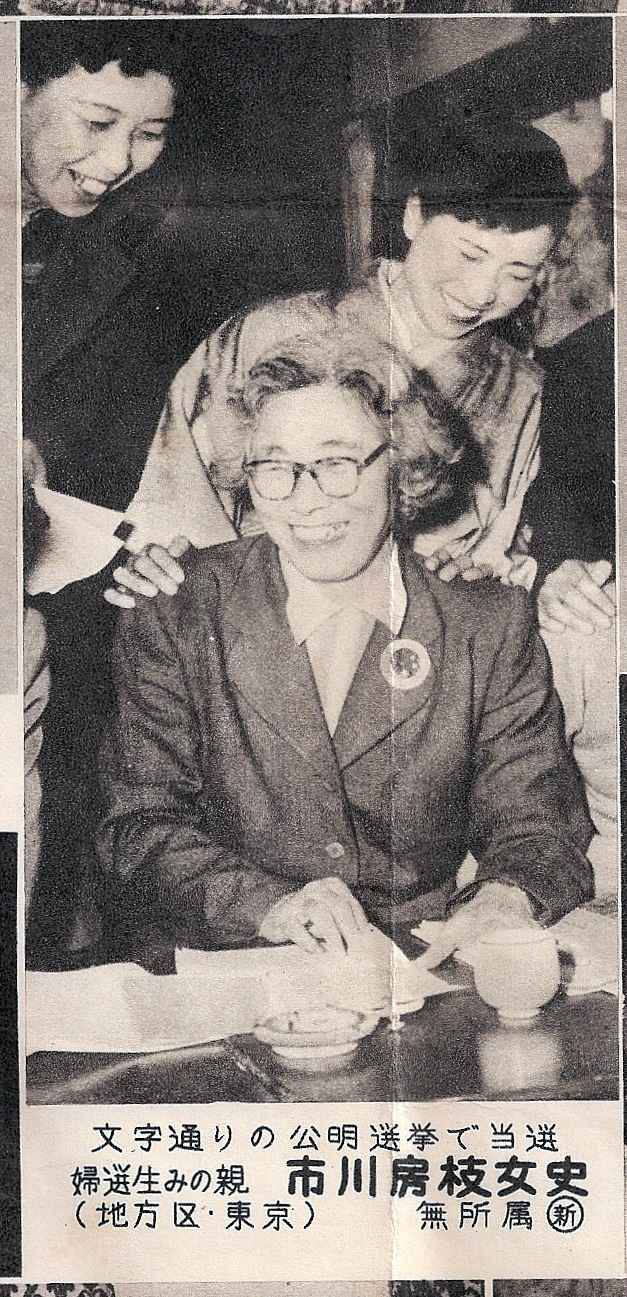 Fusae Ichikawa